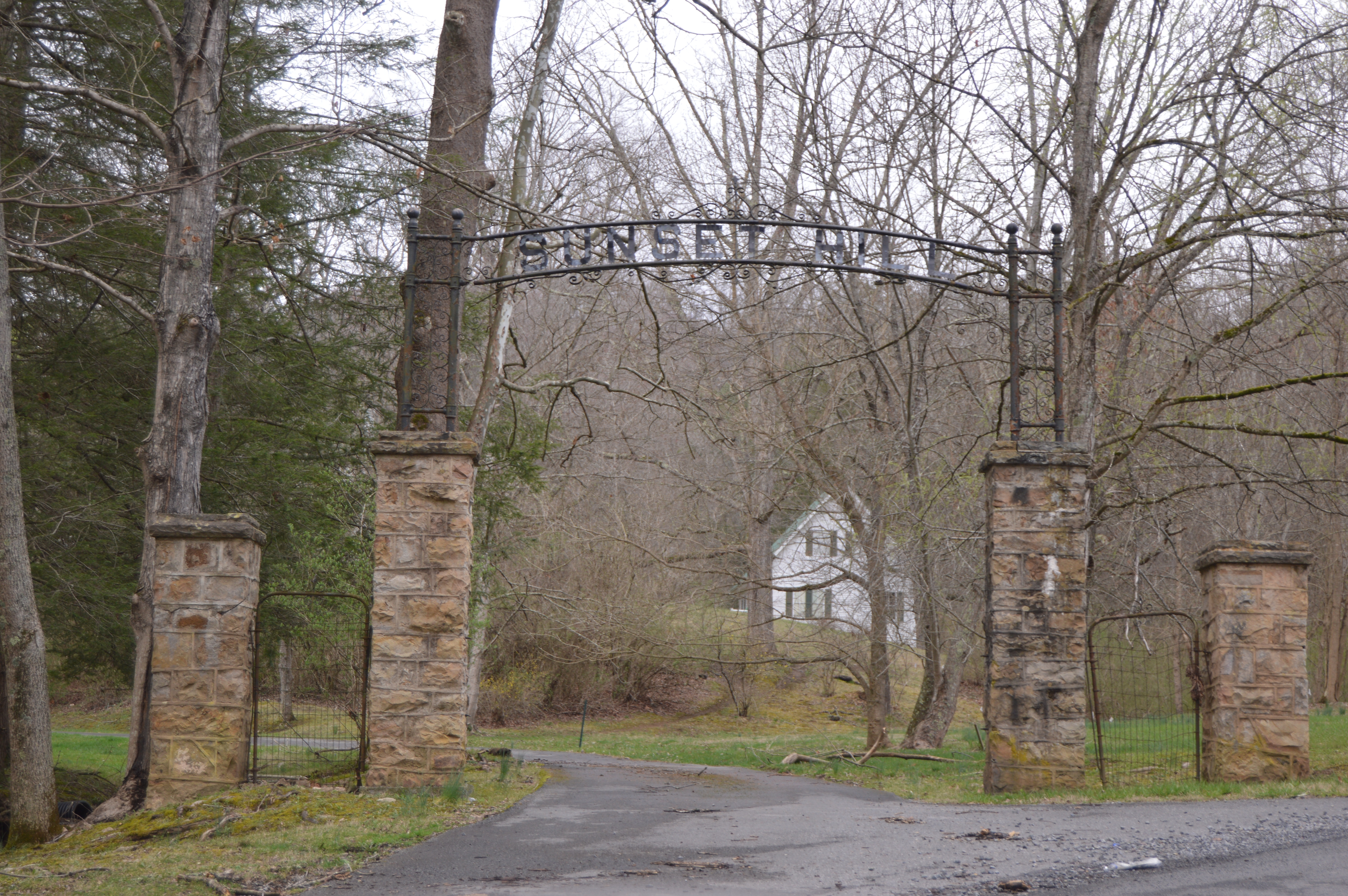 Roadside view of the Sunset Hill property, located on Flat Mountain Road just southeast of Alderson in Monroe County, West Virginia, United States. The property is listed on the National Register of Historic Places.